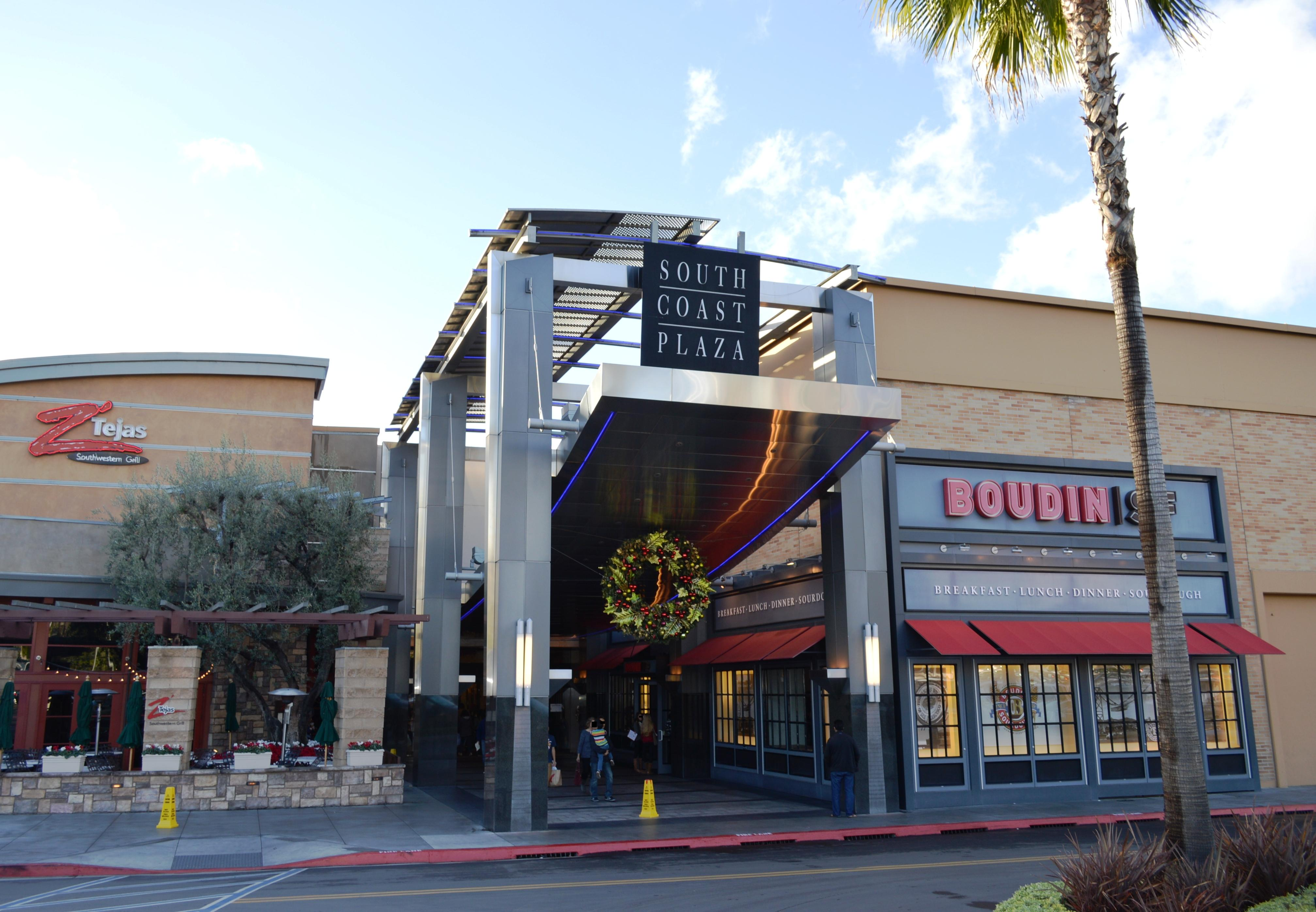 One of several mall entrances, decorated for holidays - South Coast Plaza in Costa Mesa, California, U.S.A.